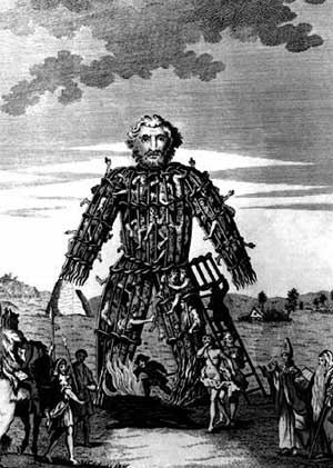 An 18th century engraving of a Celtic wicker man.